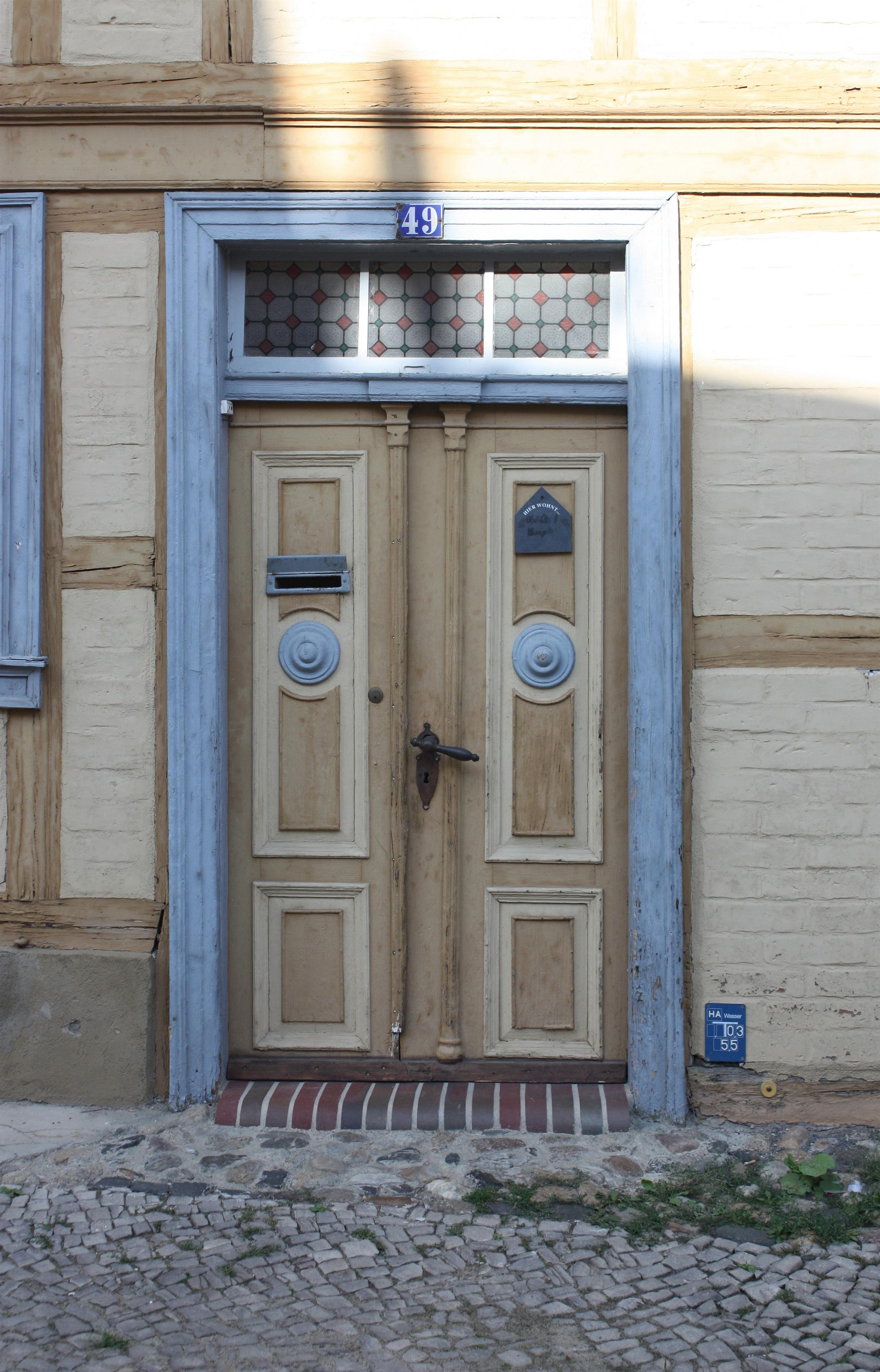 This is a photograph of an architectural monument.It is on the list of cultural monuments of Quedlinburg Augustinern 49 in Quedlinburg